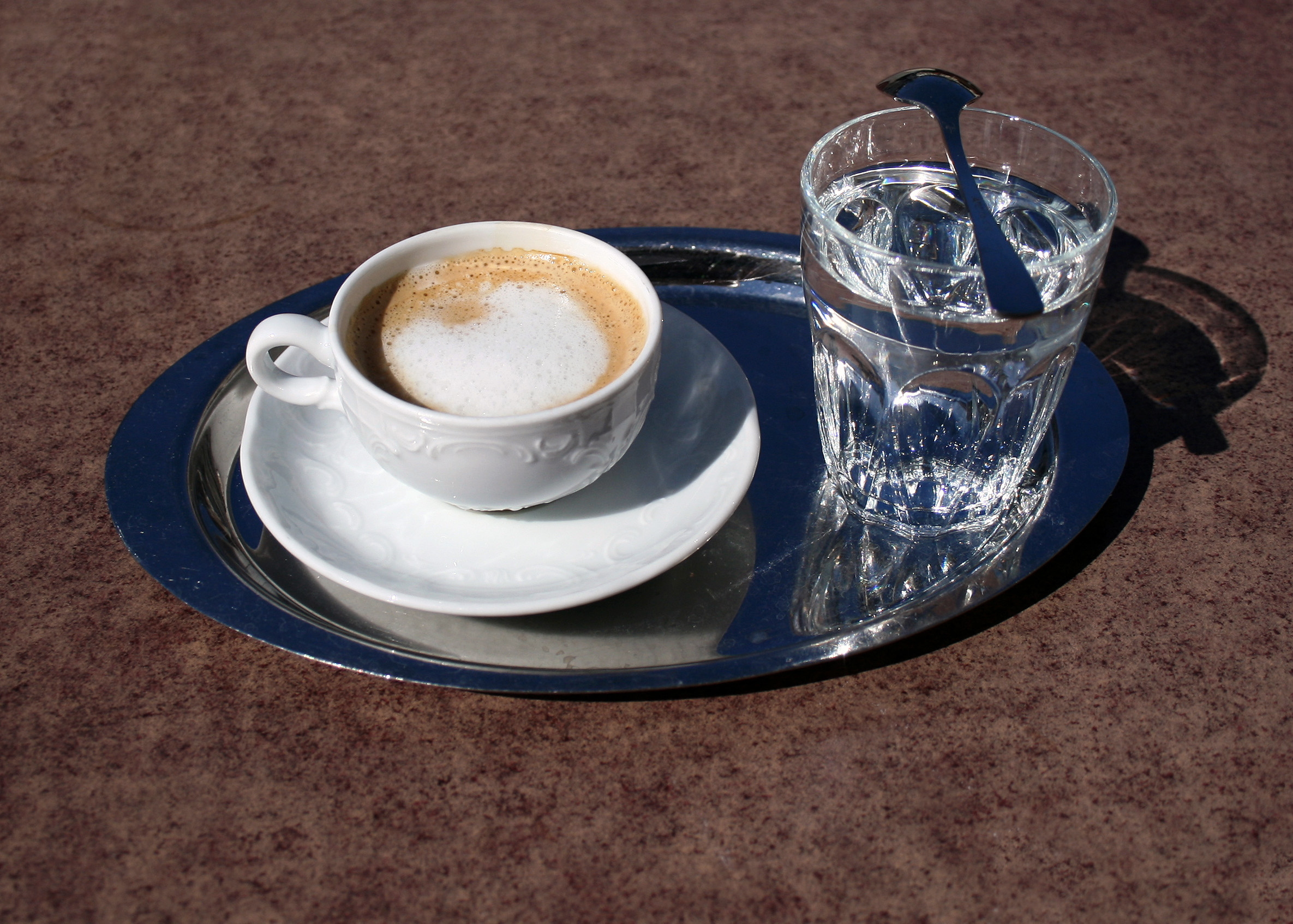 A Wiener Melange at Café Hofburg at Hofburg in Vienna, Austria.